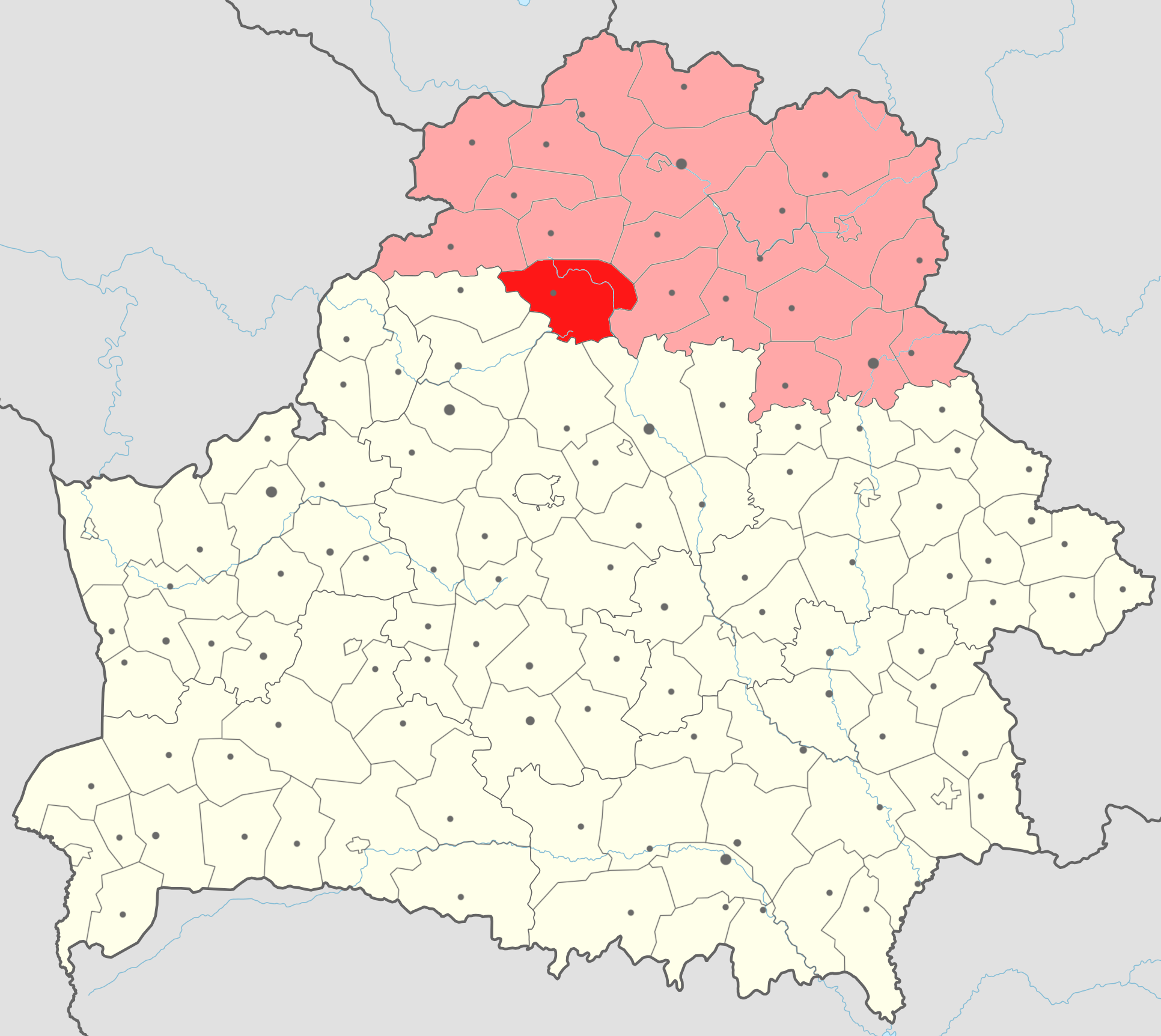 Map of Dokšycki raion (in red) with Viciebskaja voblast' (in light red) on the map of Belarus.